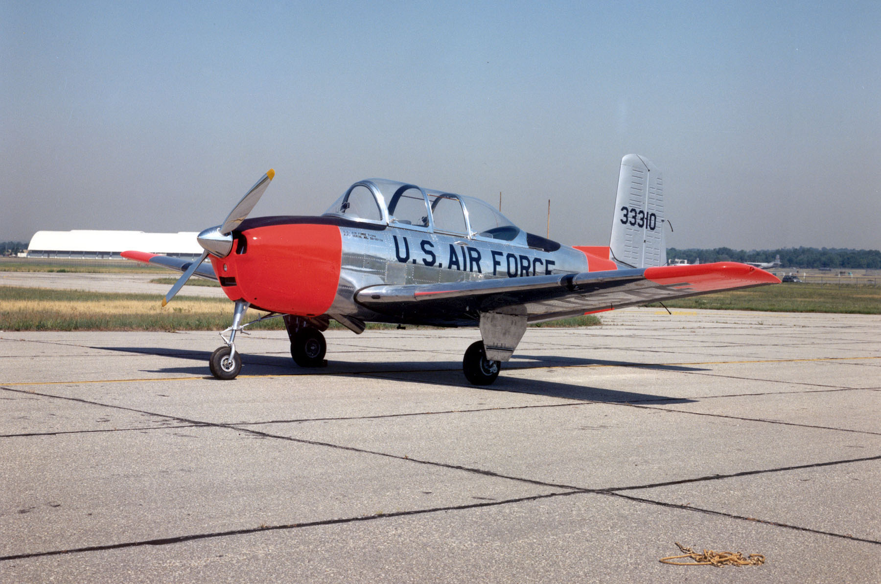 Beech T-34A Mentor at the National Museum of the United States Air Force.